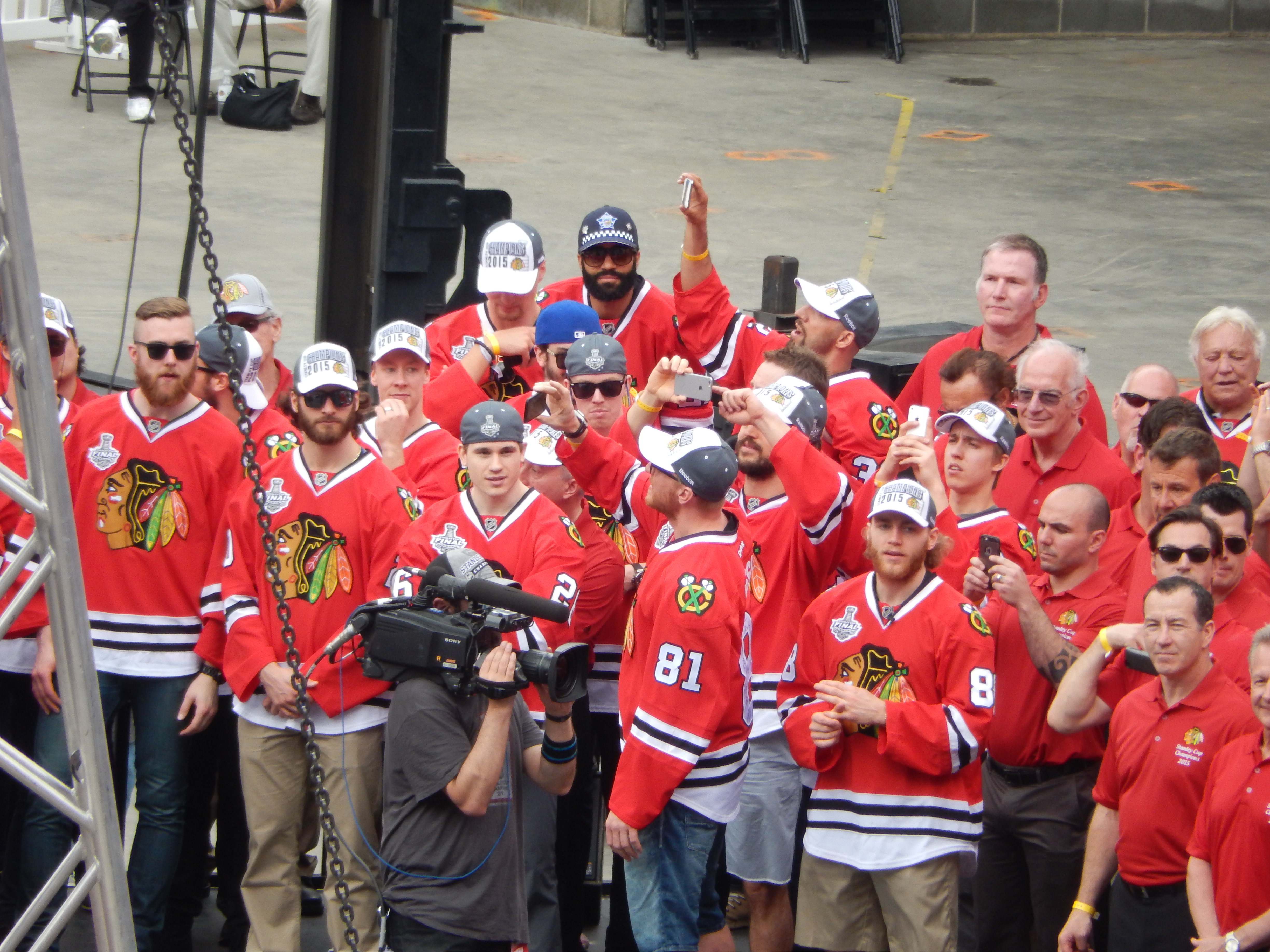 Various players from the Chicago Blackhawks in Attendance at the 2015 Championship Rally.